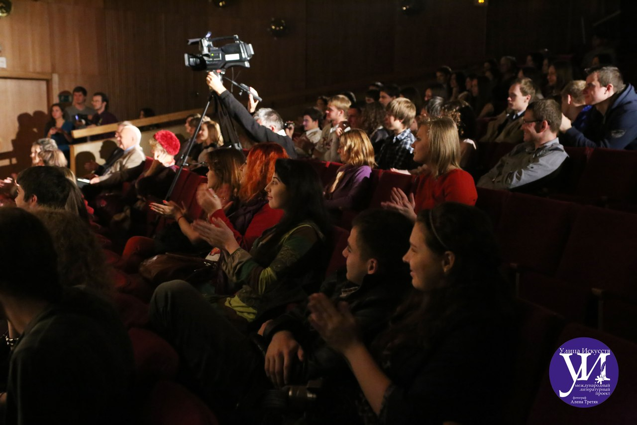 Зрительный зал в Праге